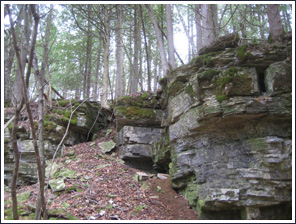 Niagara Escarpment at the Bayshore Blufflands Wisconsin State Natural Area